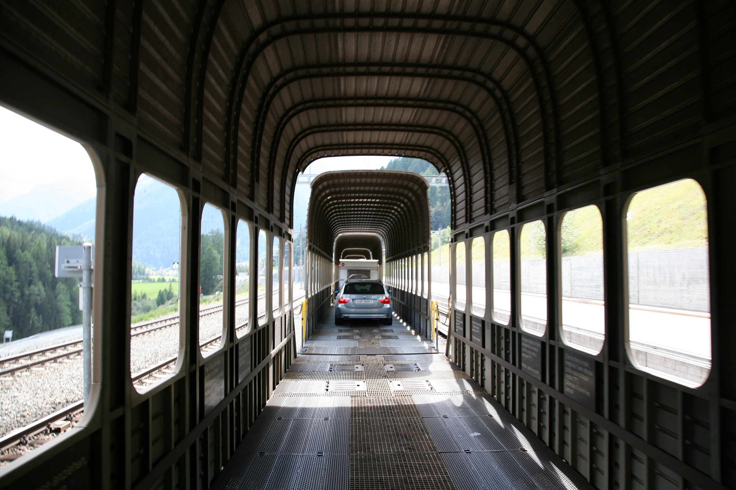 Boarding the Vereina car transport train, at Sagliains station.